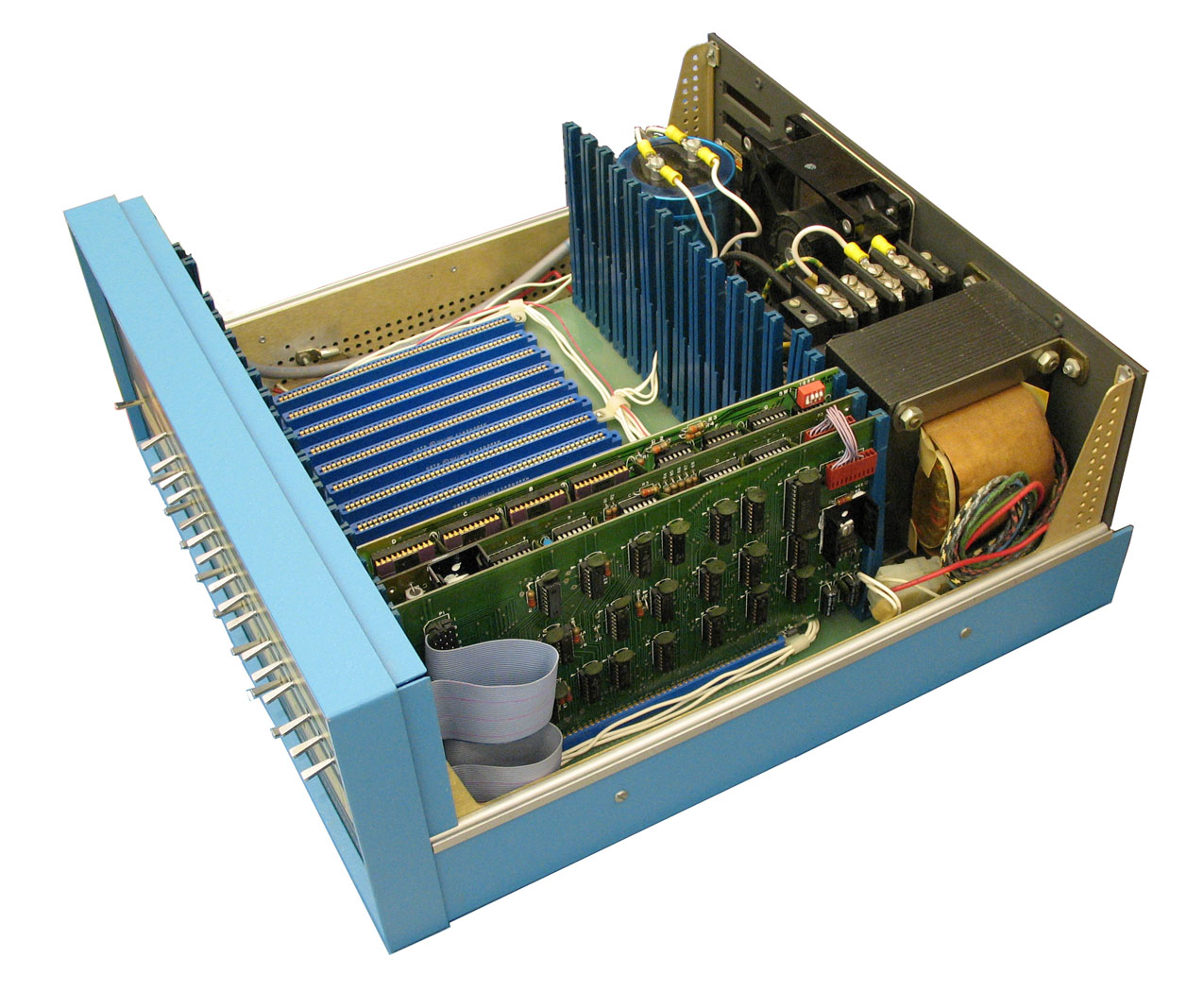 The MITS Altair 8800b was introduced in mid 1976 as the successor to the original Altair 8800 that appeared on the cover of Popular Electronics in January 1975. It had an improved front panel, larger power supply, an 18 slot mother board. The price was $840 for a kit and $1100 for an assembled unit. A typical hobbyist system with 16K of memory, a video display, a cassette tape data storage, and BASIC language software would be around $2000. The BASIC language software was written by Bill Gates, Paul Allen, and Monte Davidoff. Computer displayed by Robert Rosenbloom at the Vintage Computer Festival. This was held at the Computer History Museum in Mountain View, California, November 2007. Photo by Michael Holley, November 2007. Taken with a Canon PowerShot A630 (1/13 second and F/2.8) with existing light.